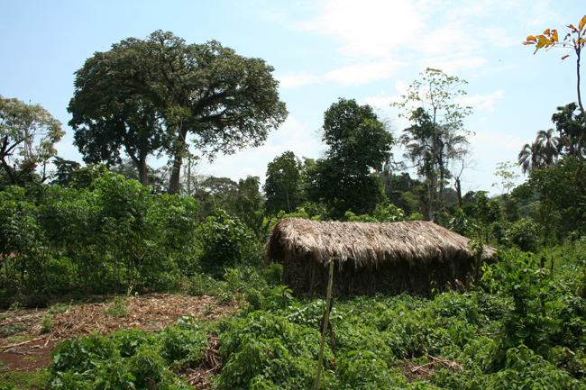 A Shabo (Sabu) house in the rainforest of southwestern Ethiopia